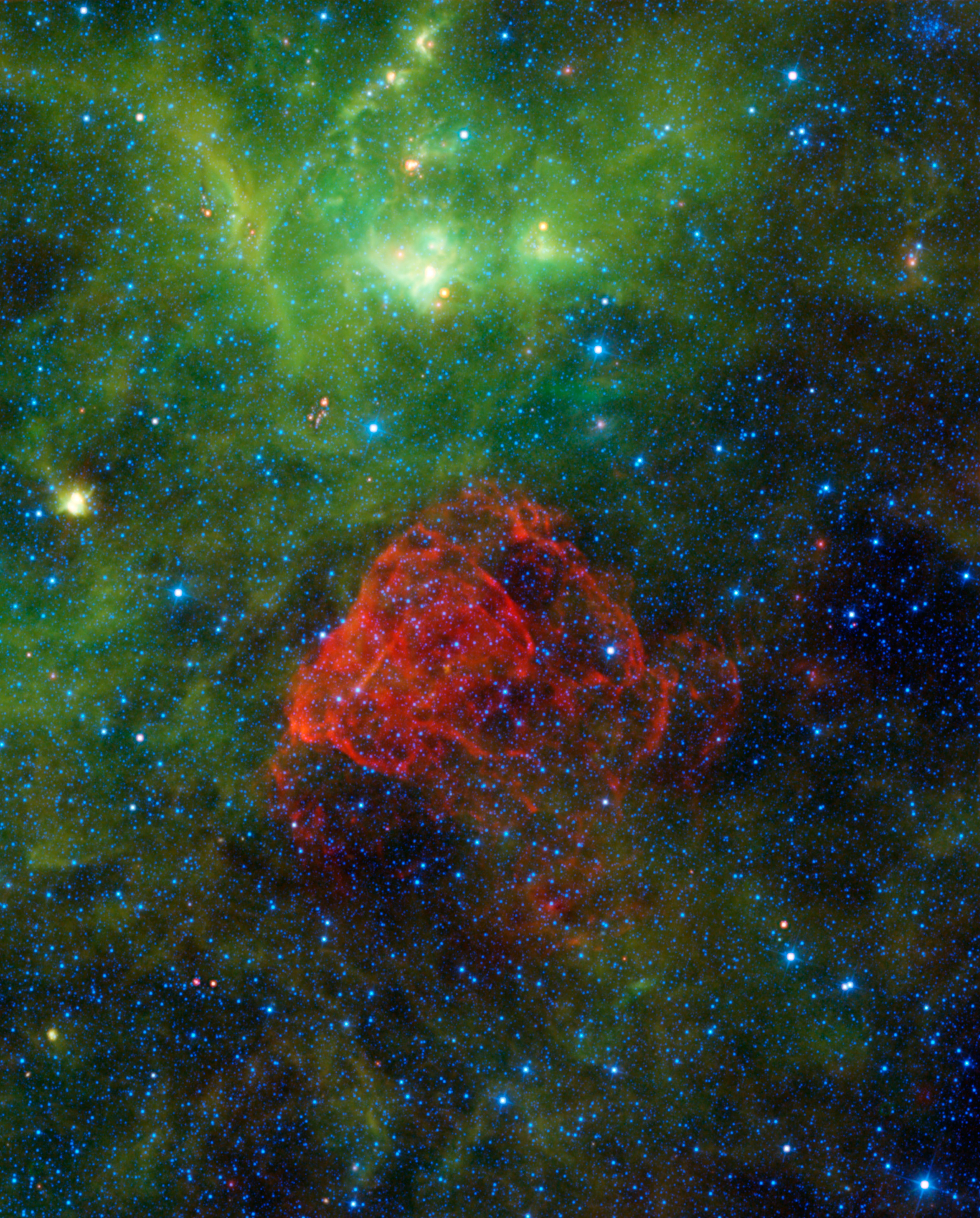 Ancient Supernova Revealed About 3,700 years ago people on Earth would have seen a brand-new bright star in the sky. As it slowly dimmed out of sight, it was eventually forgotten, until modern astronomers found its remains -- called Puppis A. Seen as a red dusty cloud in this image from NASA's Wide-field Infrared Survey Explorer, or WISE, Puppis A is the remnant of a supernova explosion. Puppis A (pronounced PUP-pis) was formed when a massive star ended its life in an extremely bright and powerful explosion. The expanding shock waves from that explosion are heating up the dust and gas clouds surrounding the supernova, causing them to glow and creating the beautiful red cloud we see here. Much of the material from that original star was violently thrown out into space. However, some of the material remained in an incredibly dense object called a neutron star. This particular neutron star (too faint to be seen in this image) is moving inexplicably fast: over 3 million miles per hour! Astronomers are perplexed over its absurd speed, and have nicknamed the object the "Cosmic Cannonball." Some of the green-colored gas and dust in the image is from yet another ancient supernova -- the Vela supernova remnant. That explosion happened around 12,000 years ago and was four times closer to us than Puppis A. If you had X-ray vision like the comic book hero Superman, both of these remnants would be among the largest and brightest objects you would see in the sky. This image was made from observations by all four infrared detectors aboard WISE. Blue and cyan (blue-green) represent infrared light at wavelengths of 3.4 and 4.6 microns, which is primarily from stars, the hottest objects pictured. Green and red represent light at 12 and 22 microns, which is primarily from warm dust.